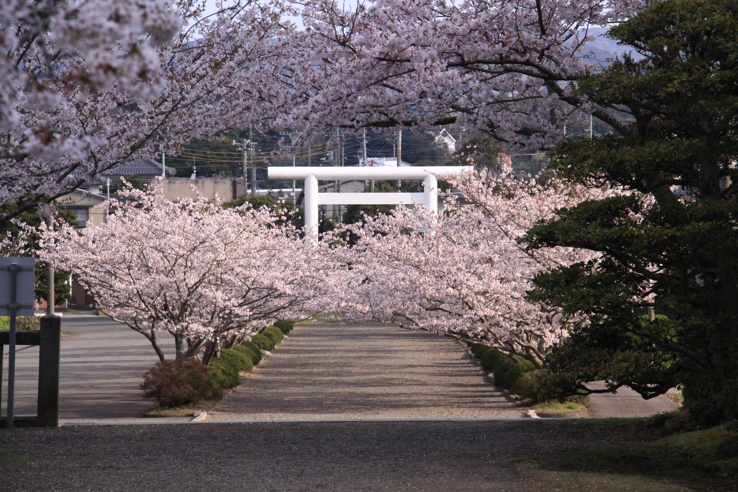 Awa jinja Gate in the Spring.